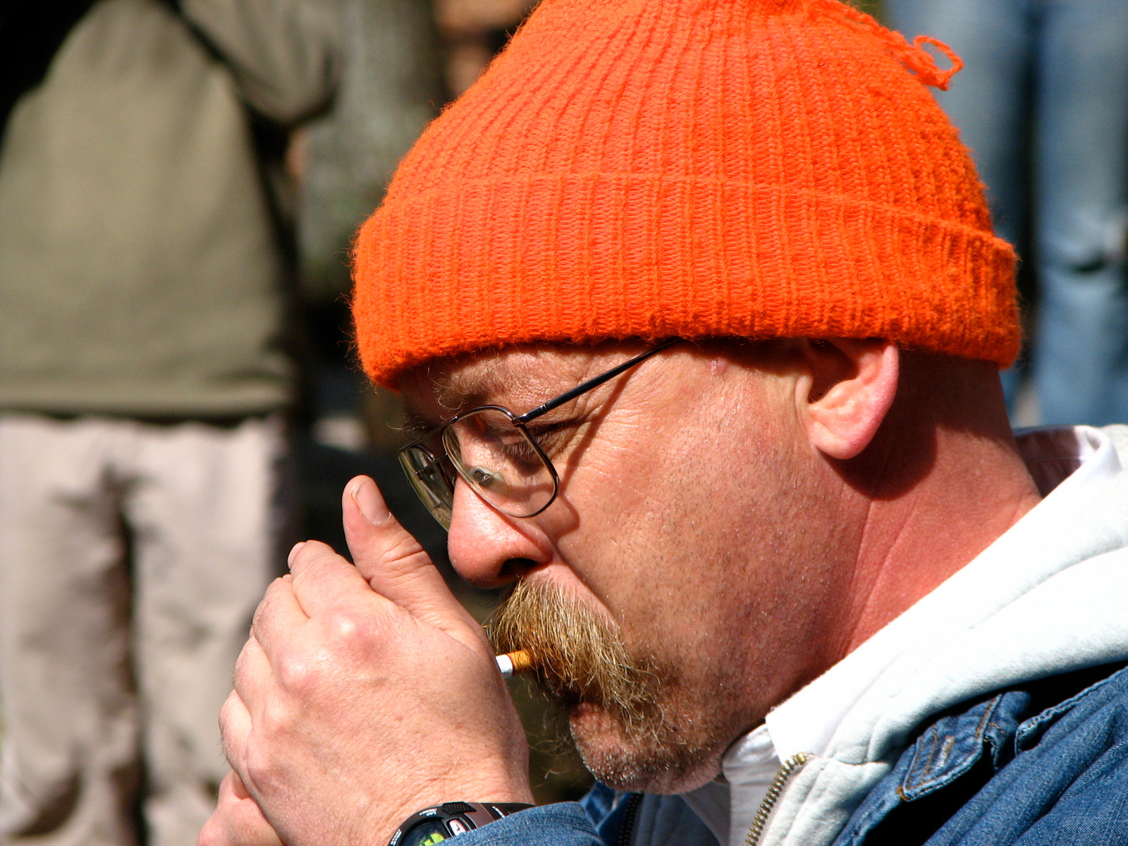 Gary "Lazarus Lake" Cantrell lights a cigarette to signal the start of the Barkley Marathons